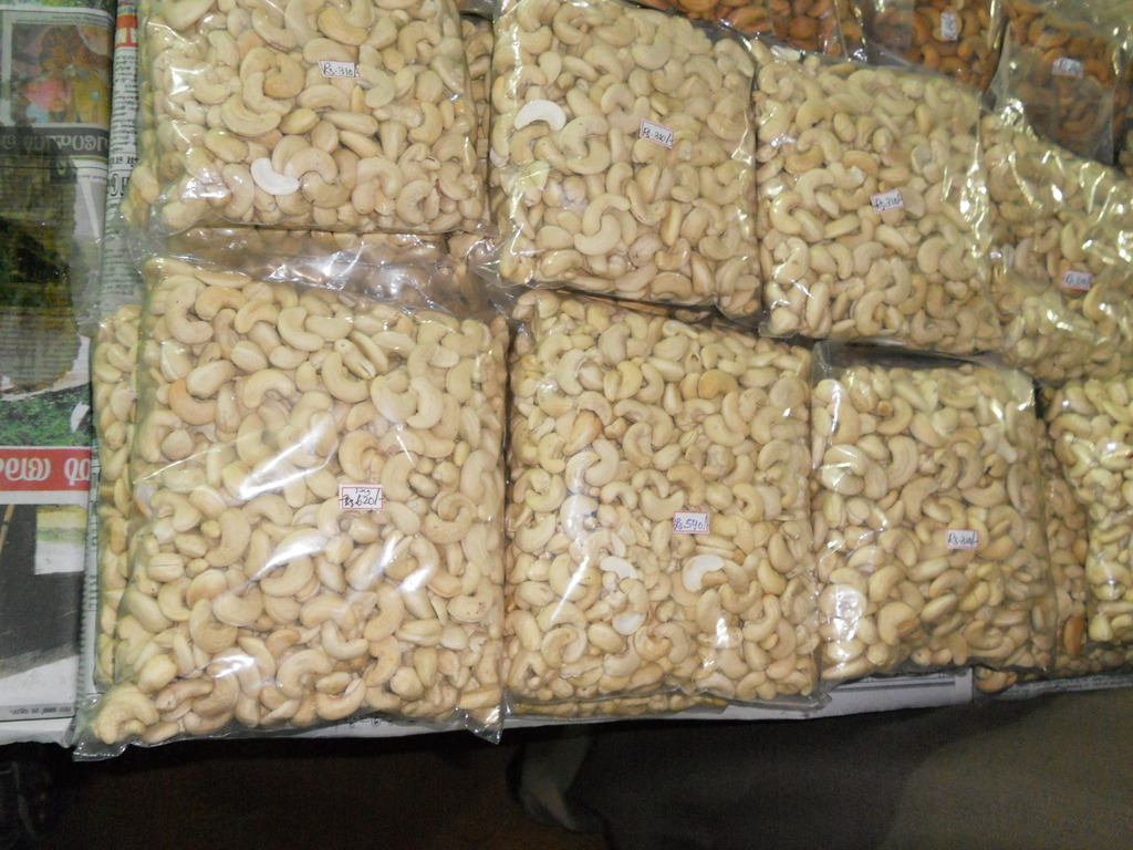 cashew nut packet